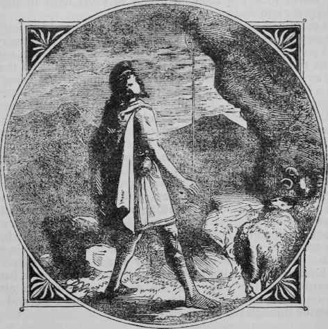 An illustration of Magnes the shepherd, the (probably mythical) discoverer of natural magnetism